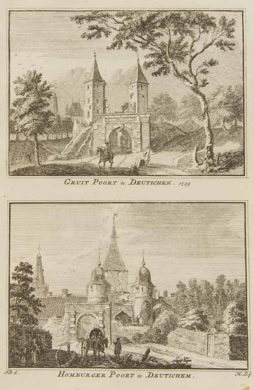 Citygates of Doetinchem (Netherlands)